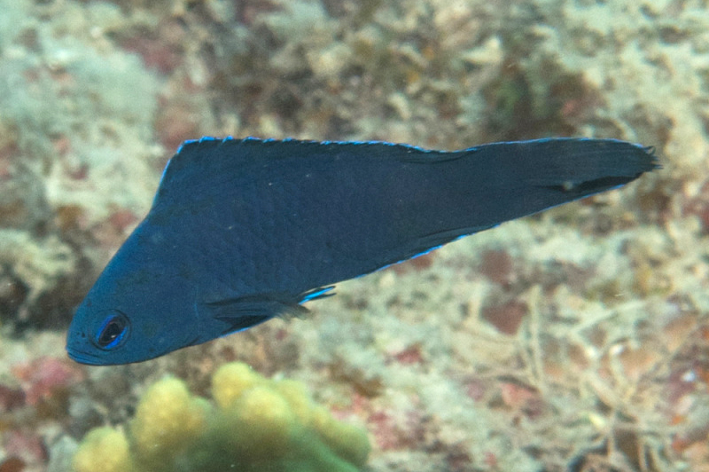 A Blue Scissortail, Assessor macneilli, in the Lizard Island area, Great Barrier Reef, Queensland